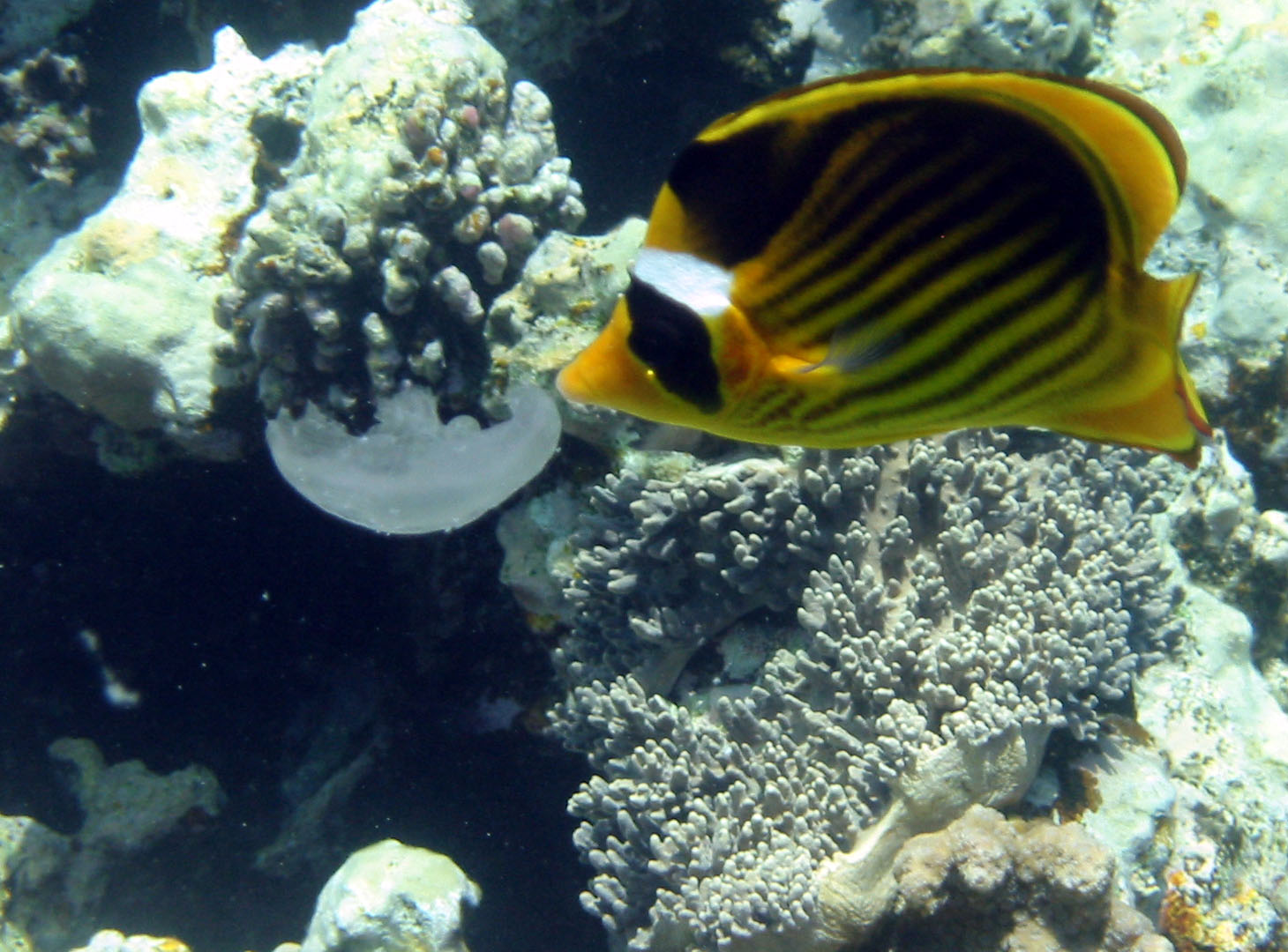 Raccoon butterflyfish, Dahab, Red Sea - Chaetodon fasciatus